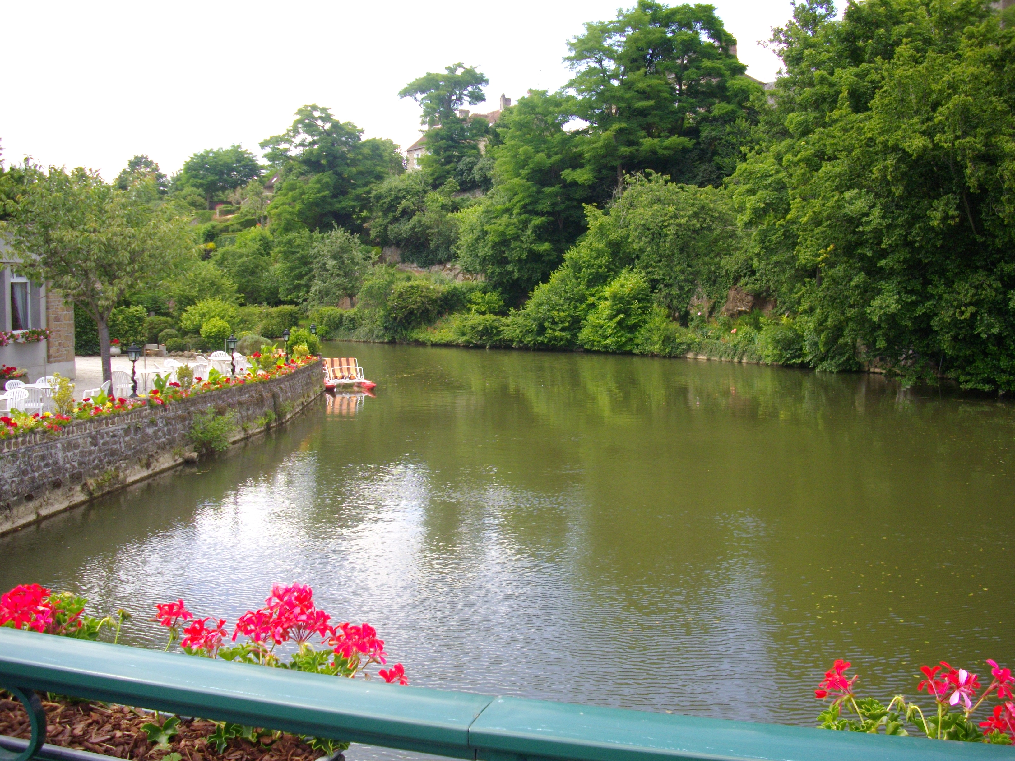 Orne River in Putanges-Pont-Ecrepin (Basse-Normandie, France)